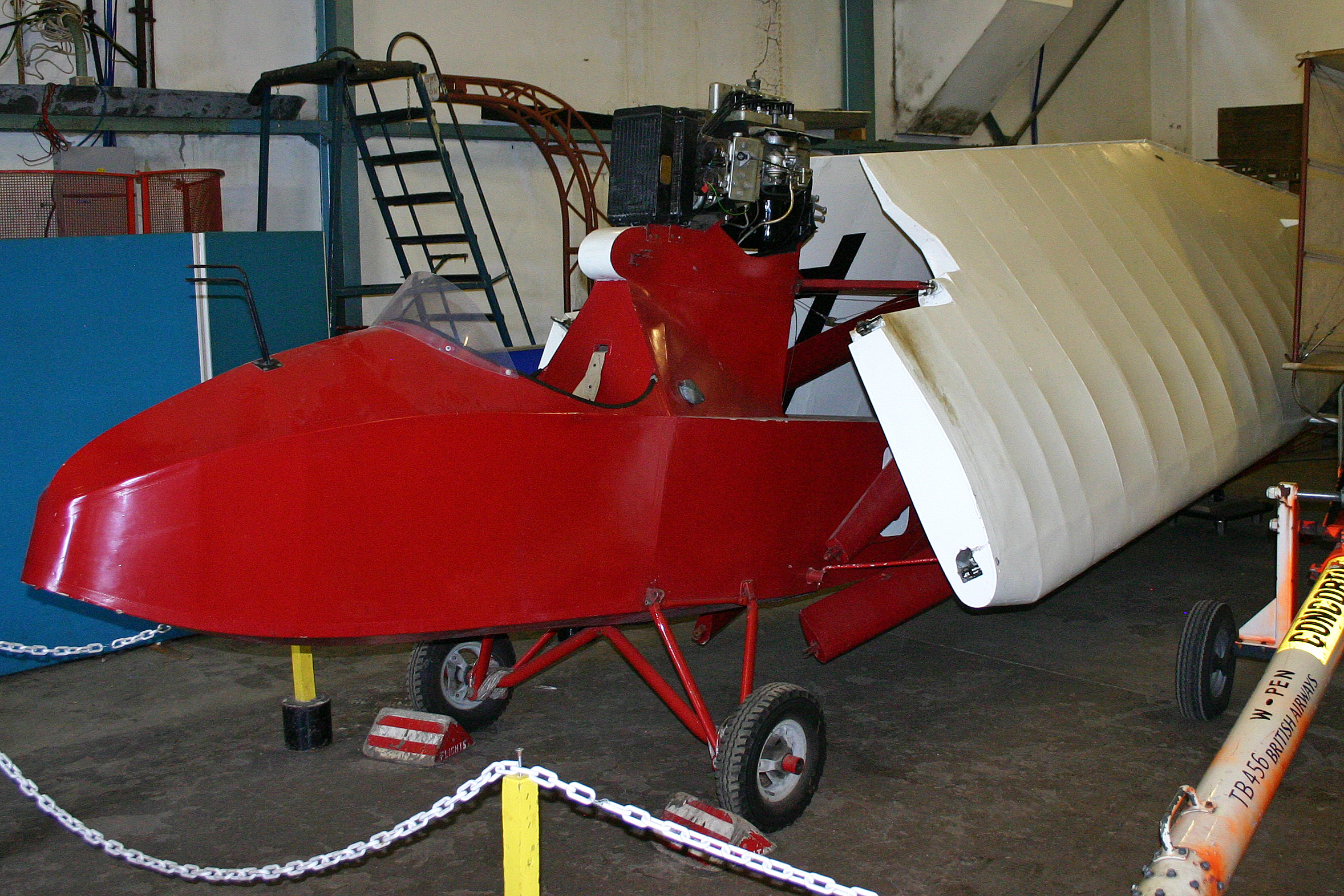 Also allocated BGA.2510. msn 30. Brooklands Museum. 14-6-2011